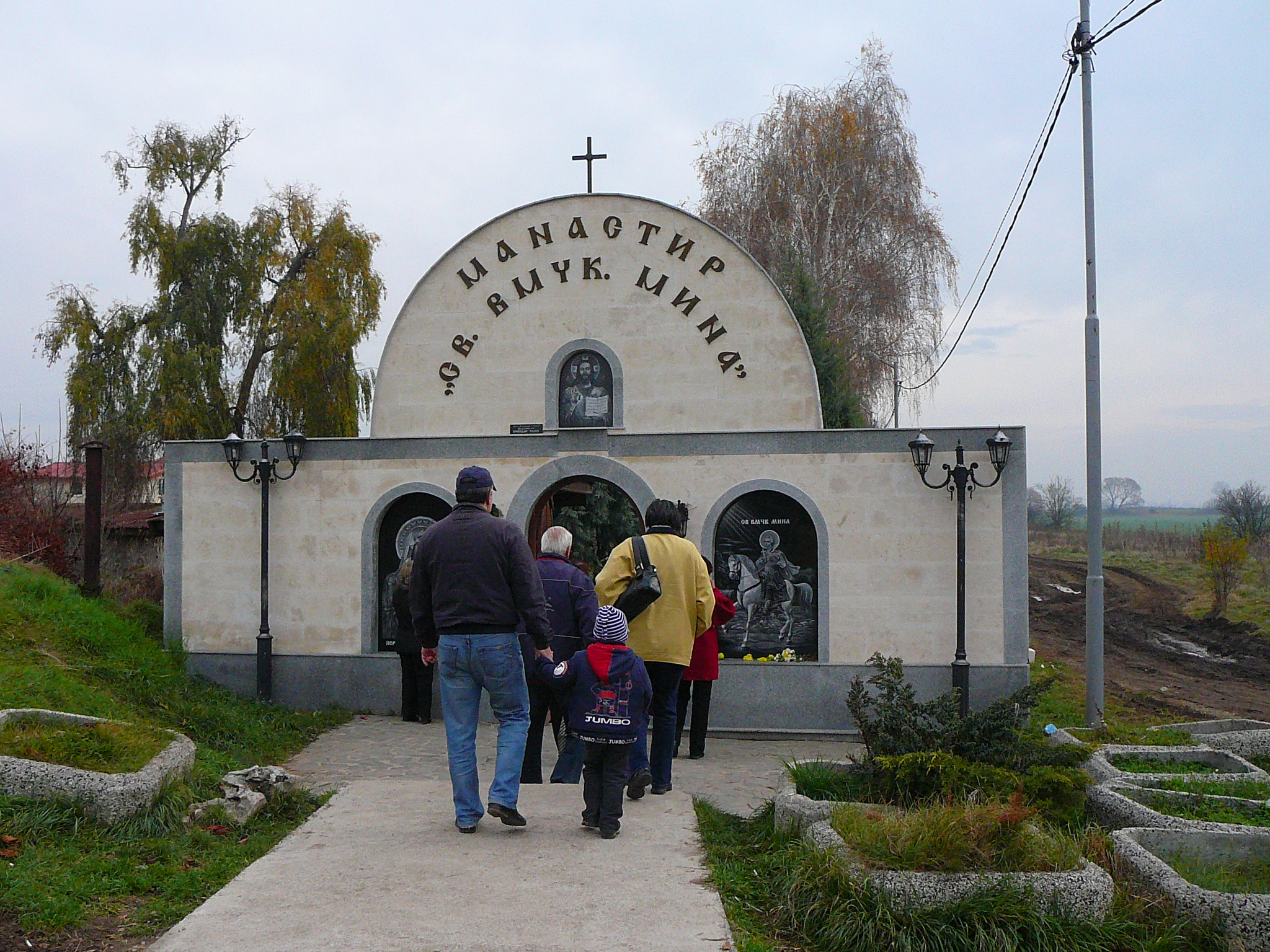 Obradovo Monastery, Sofia